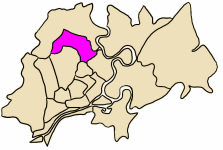 position of Go Vap district in an outline of the core area of HCMC (Ho Chi Minh City, Vietnam) - ISO code VN-F-HC. Keywords: map, outline, city, Ho Chi Minh City, HCMC, HCM, Go Vap district, quan Go Vap.